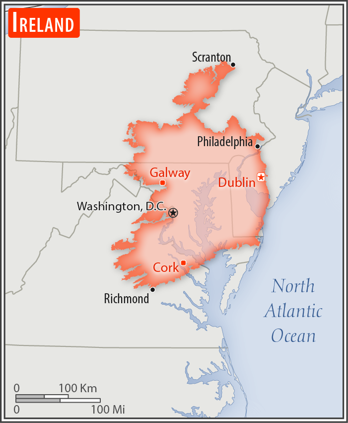 Comparison of the areas of two country. The area of Ireland with biggest cities (red) overlay the area of the United States of America (gray background).